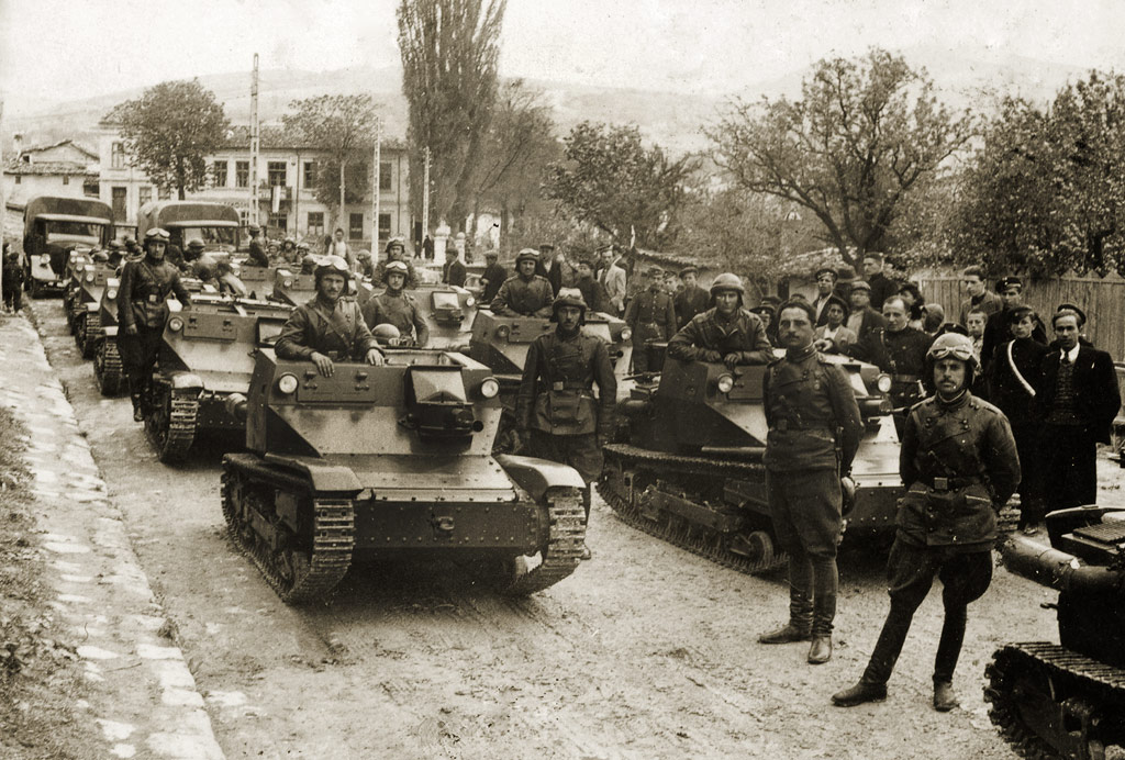 Fiat Ansaldo or CV33 armored cars in Bulgaria